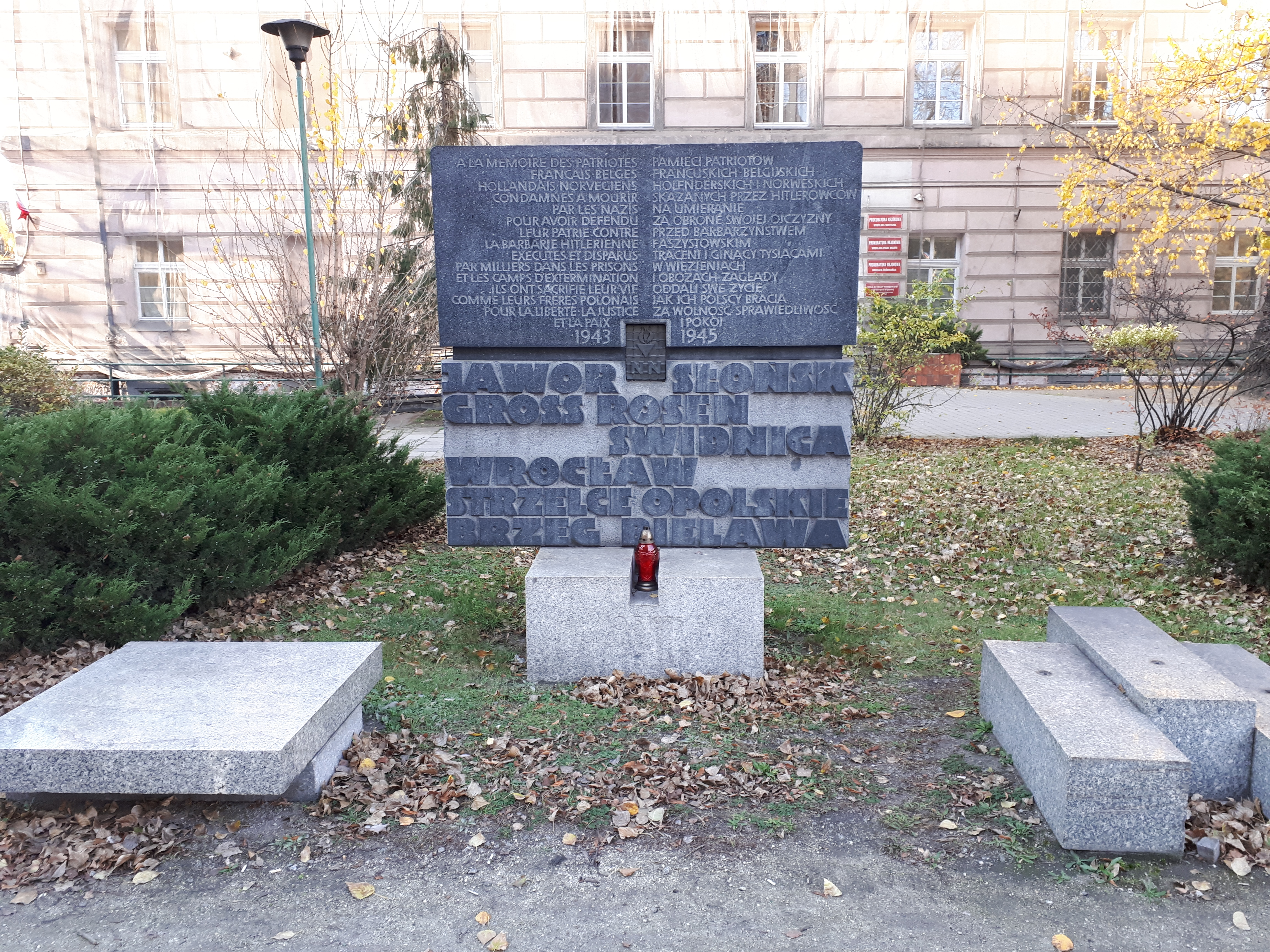 Memorial in Wrocław dedicated to French, Belgian, Dutch and Norwegian resistance fighters, who perished during World War II as a result of Nacht und Nebel.